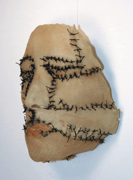 Heide Hatry, Mask, 2004. Preserved pigskin and thread